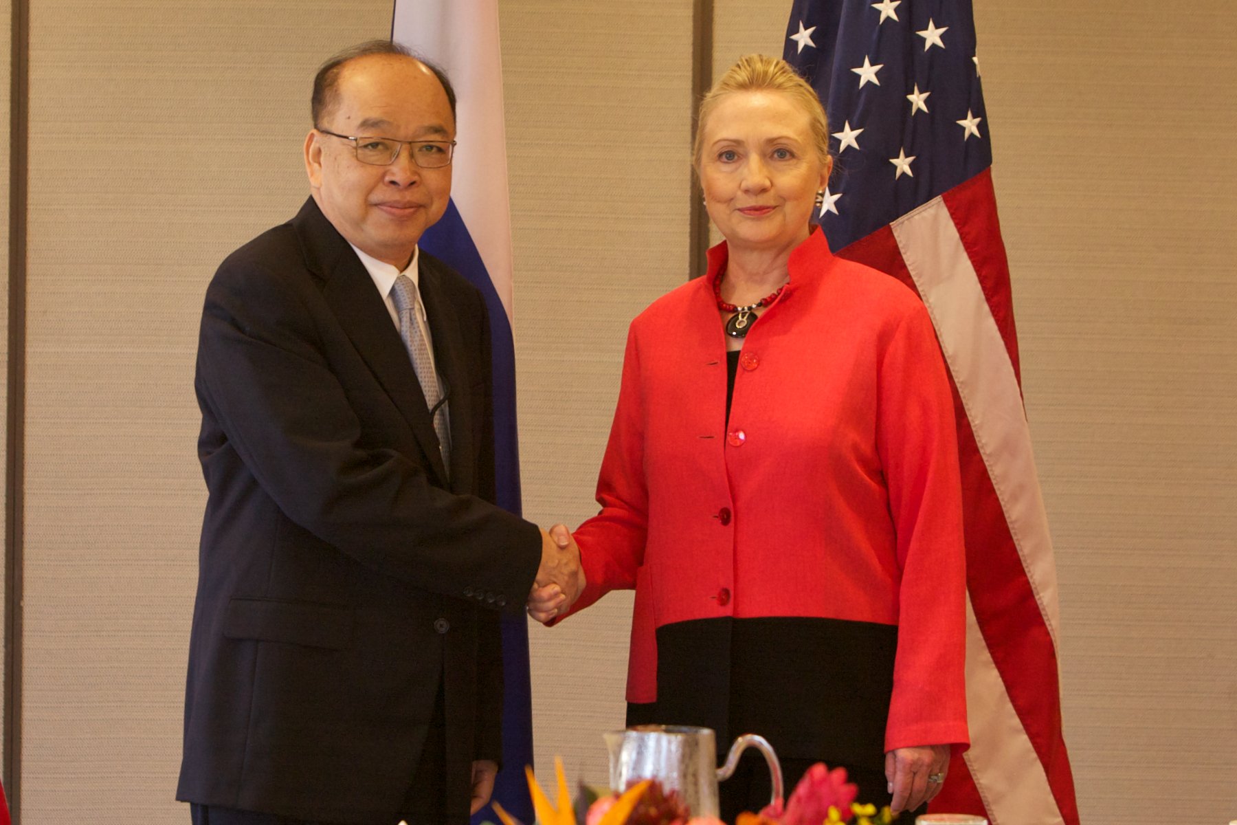 U.S. Secretary of State Hillary Rodham Clinton meets with Thai Foreign Minister Surapong Tovichakchaikul in Bangkok, Thailand, on November 16, 2011. [State Department photo by Scott Chernis]